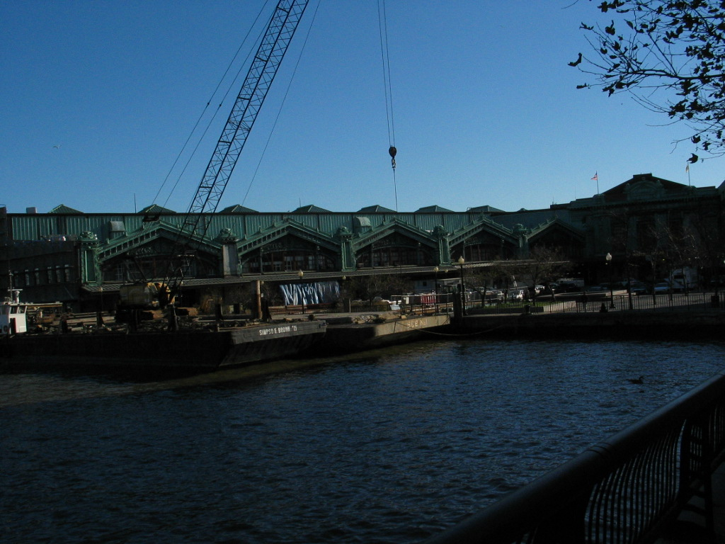 Barge by the Hoboken Terminal.